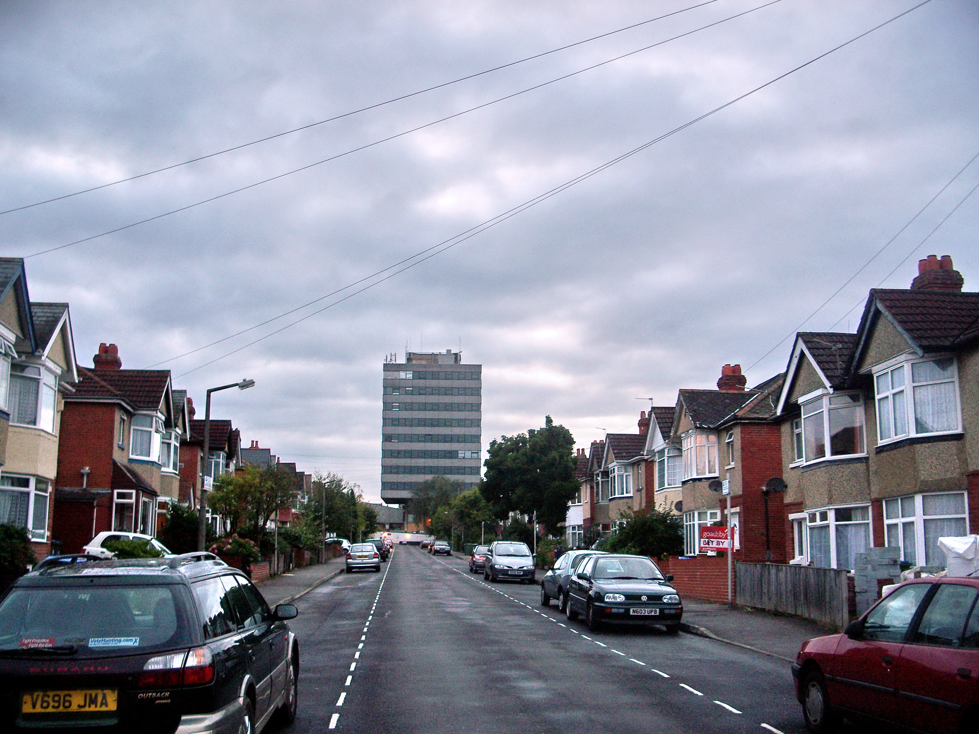 Southampton_street_near_University_of_Southampton_2008